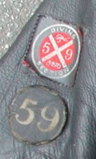 59 Club and Diving Section badges attached to a Lewis Leathers Super Bronx jacket sleeve